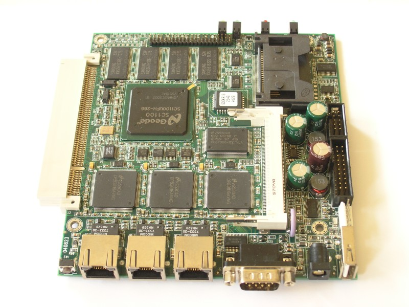 Soekris net4801 board